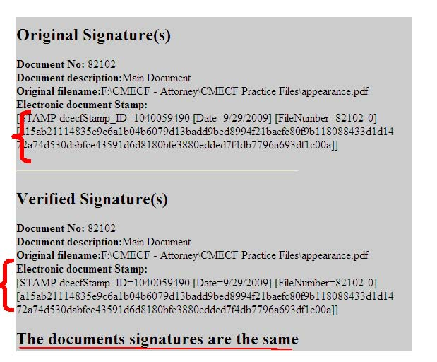 CM/ECF User Manual Ver4.0, Document Verification Procedure, page 2